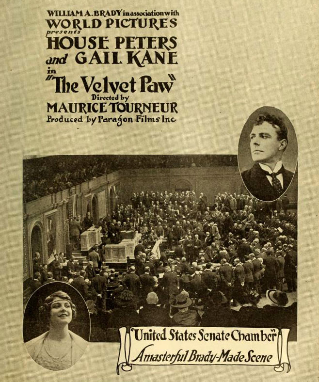 Advertisement in Moving Picture World for the American drama film The Velvet Paw (1916).